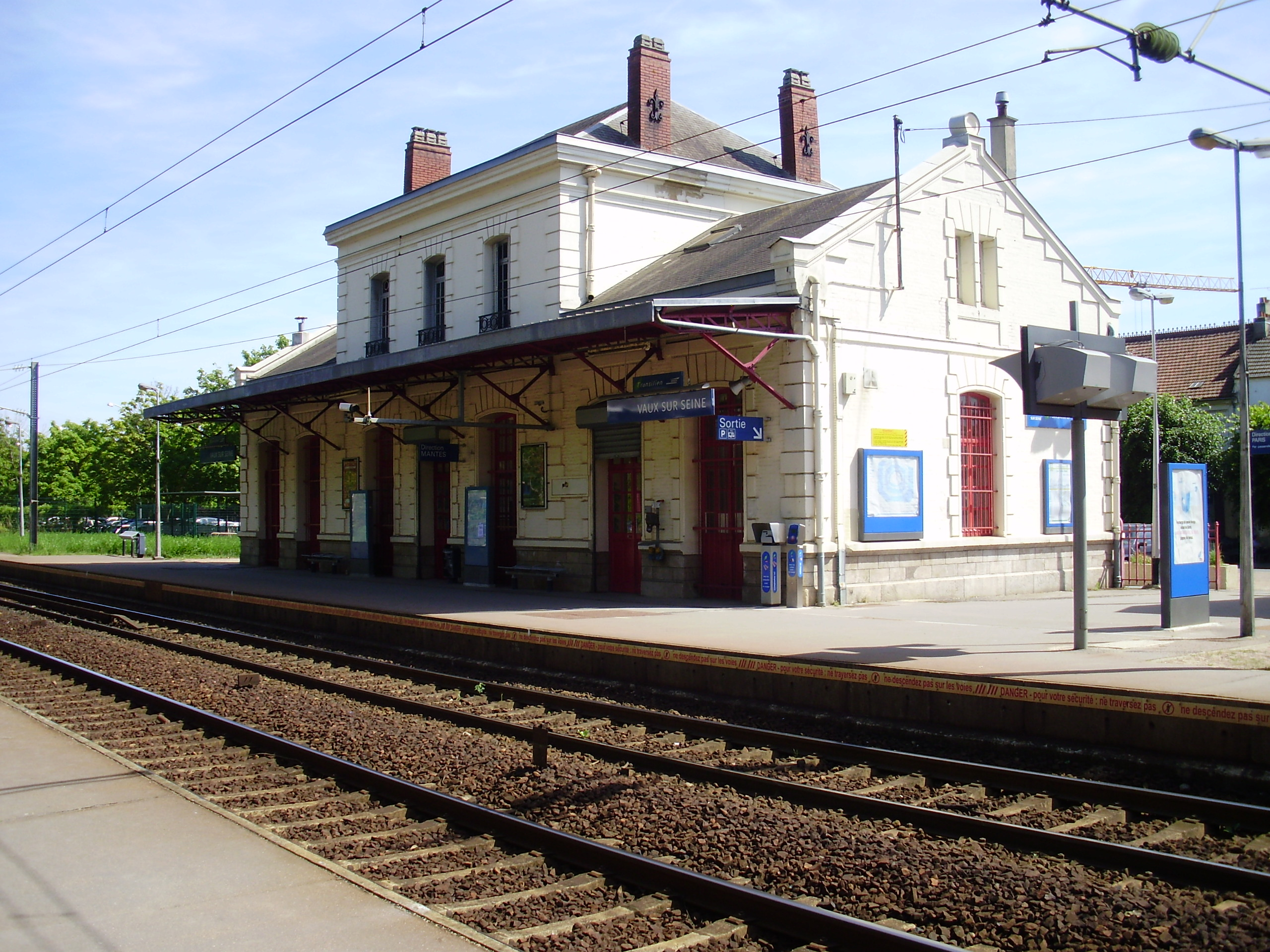 Vaux-sur-Seine station, Yvelines, France, viewed from the platform to Paris